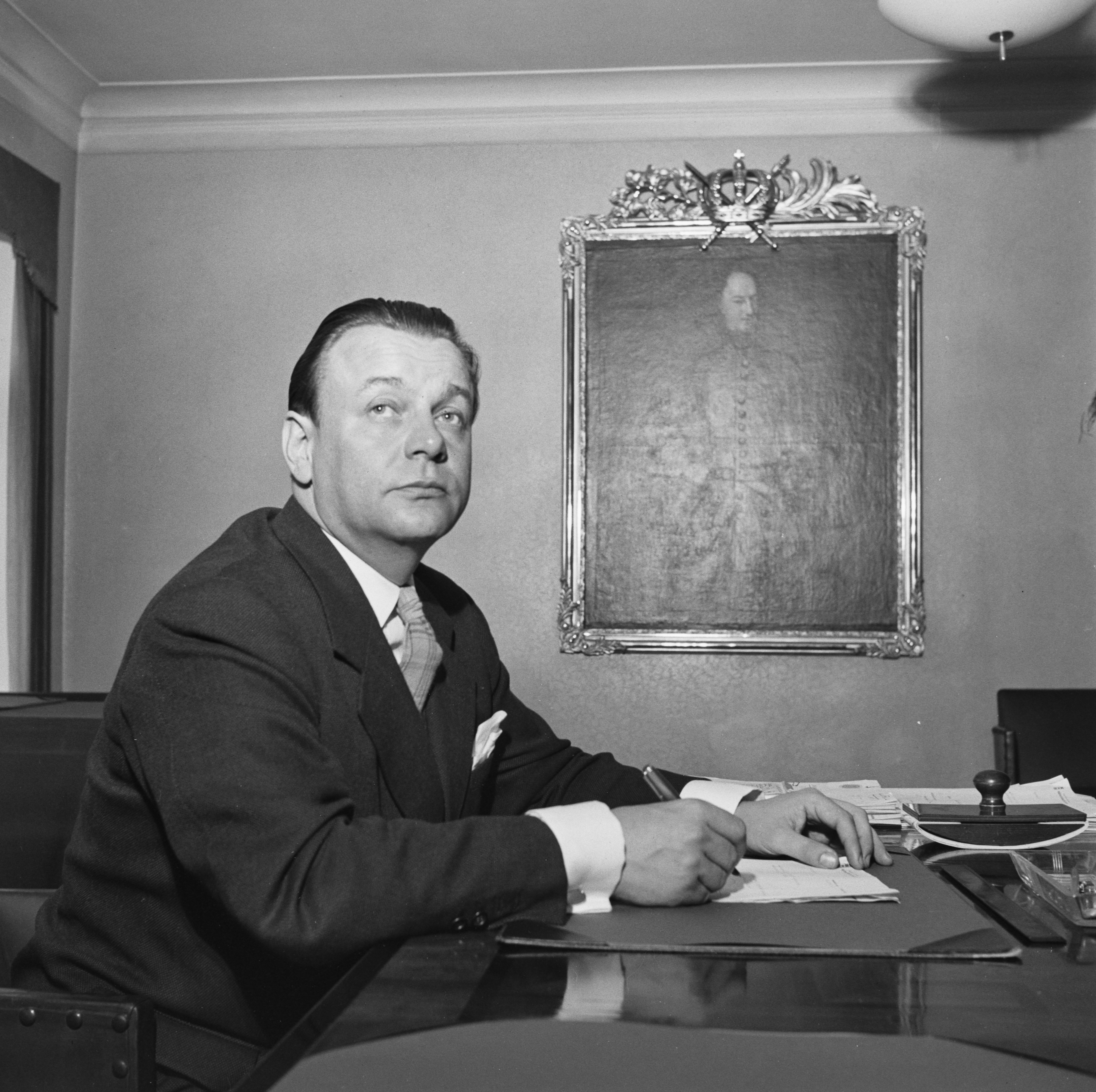 Architect Jussi Lappi-Seppälä in the early 1950s.